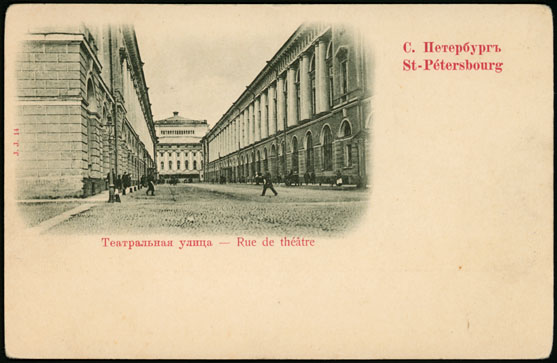 Saint Petersburg (Russia), Vaganova Academy of Russian Ballet.